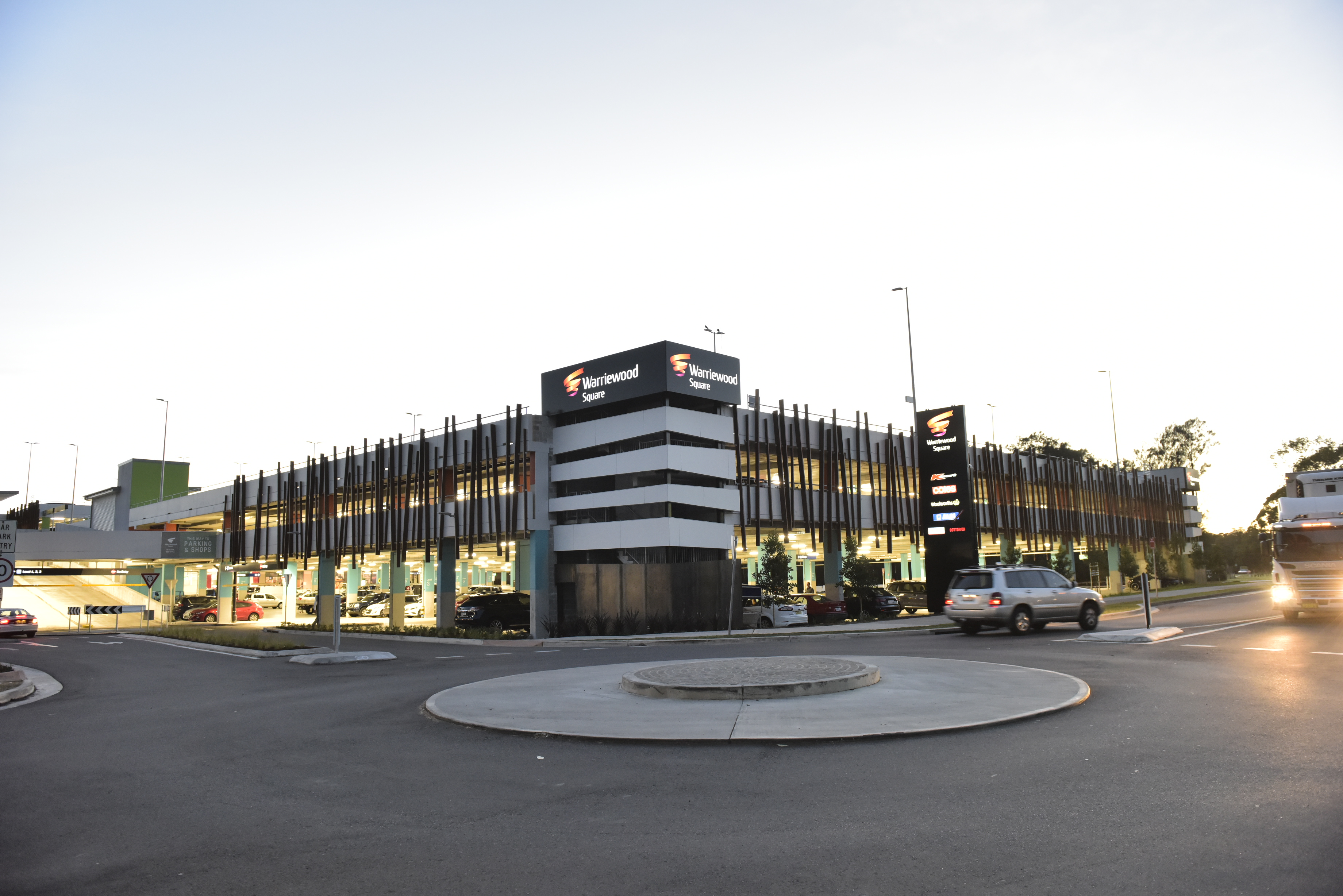 Warriewood Square shopping center